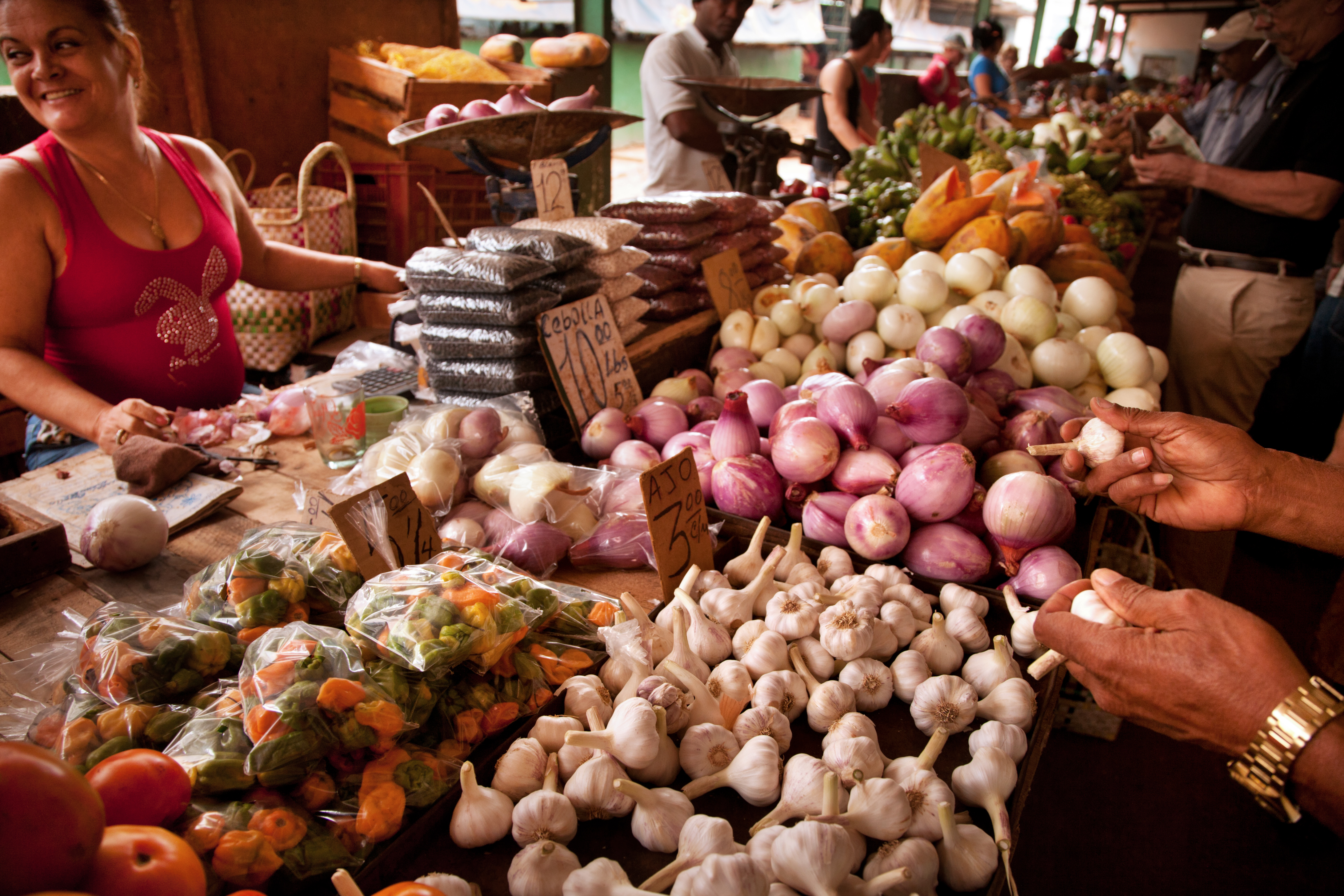 An "Agricola" grocery market in Havana (La Habana), Cuba